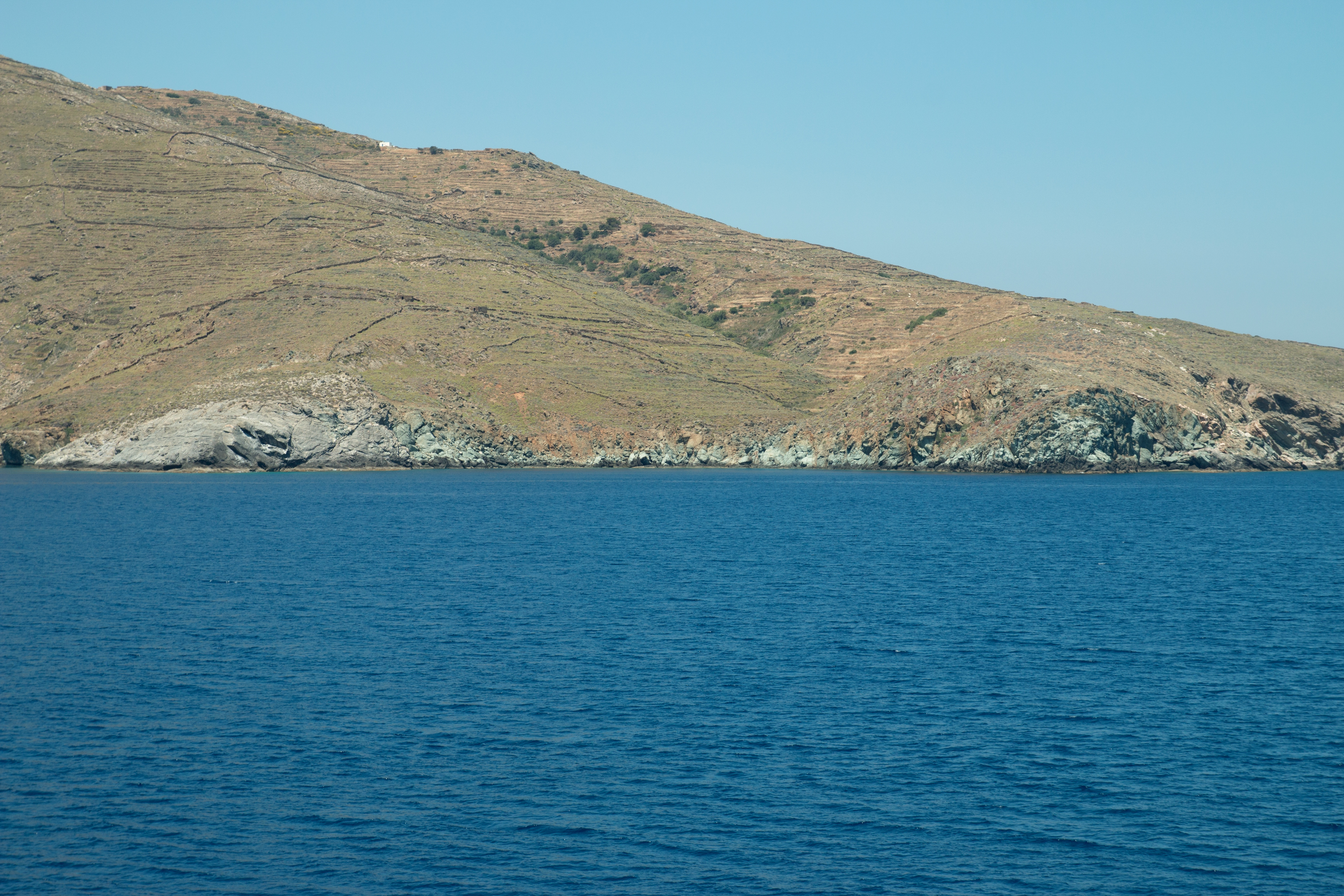 Serifos. East coast from ferry boat sailing from Kythnos.